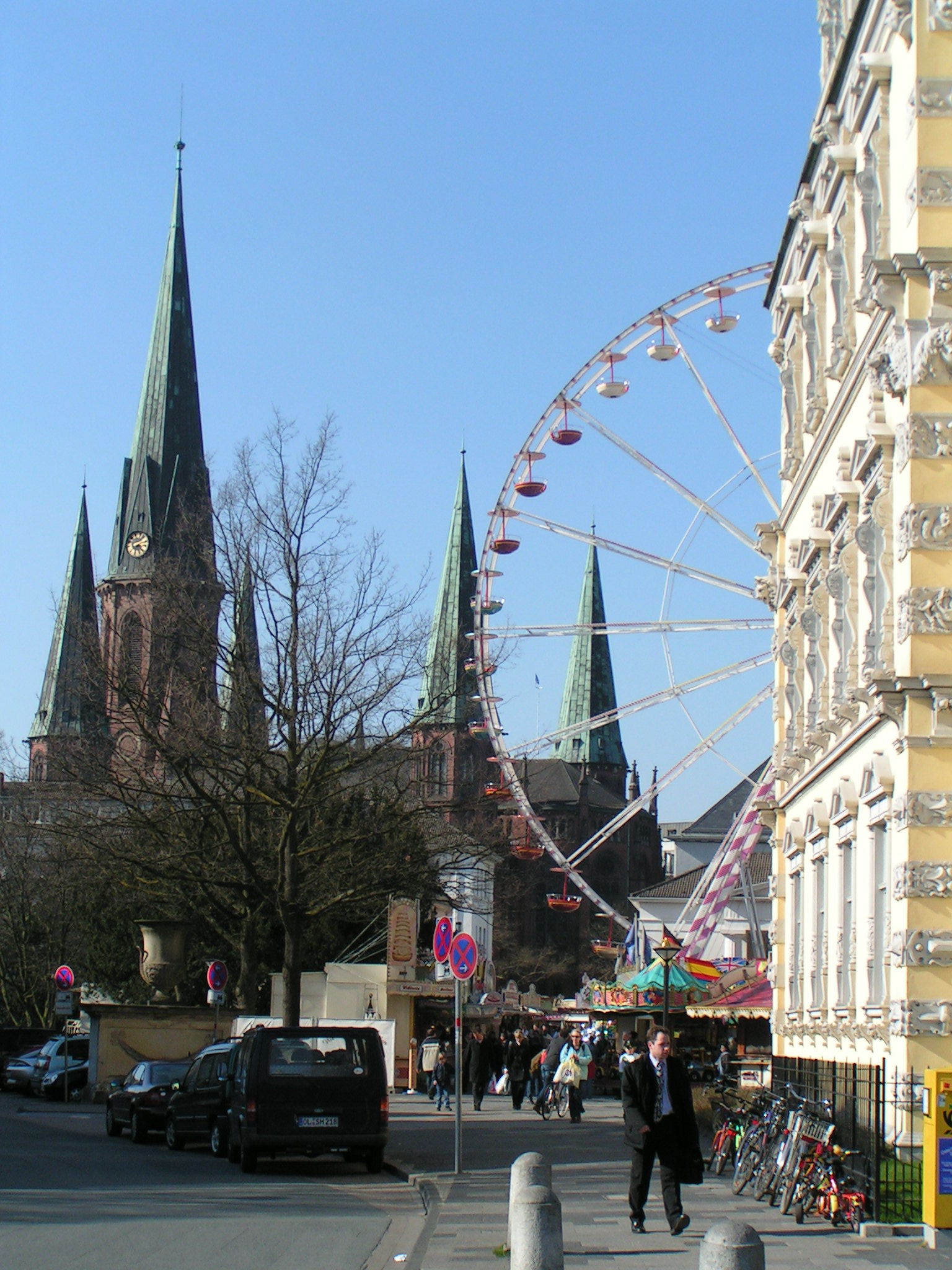 Easter market Oldenburg 2005: St. Lamberti Church, Ferris wheel and Residence Castle